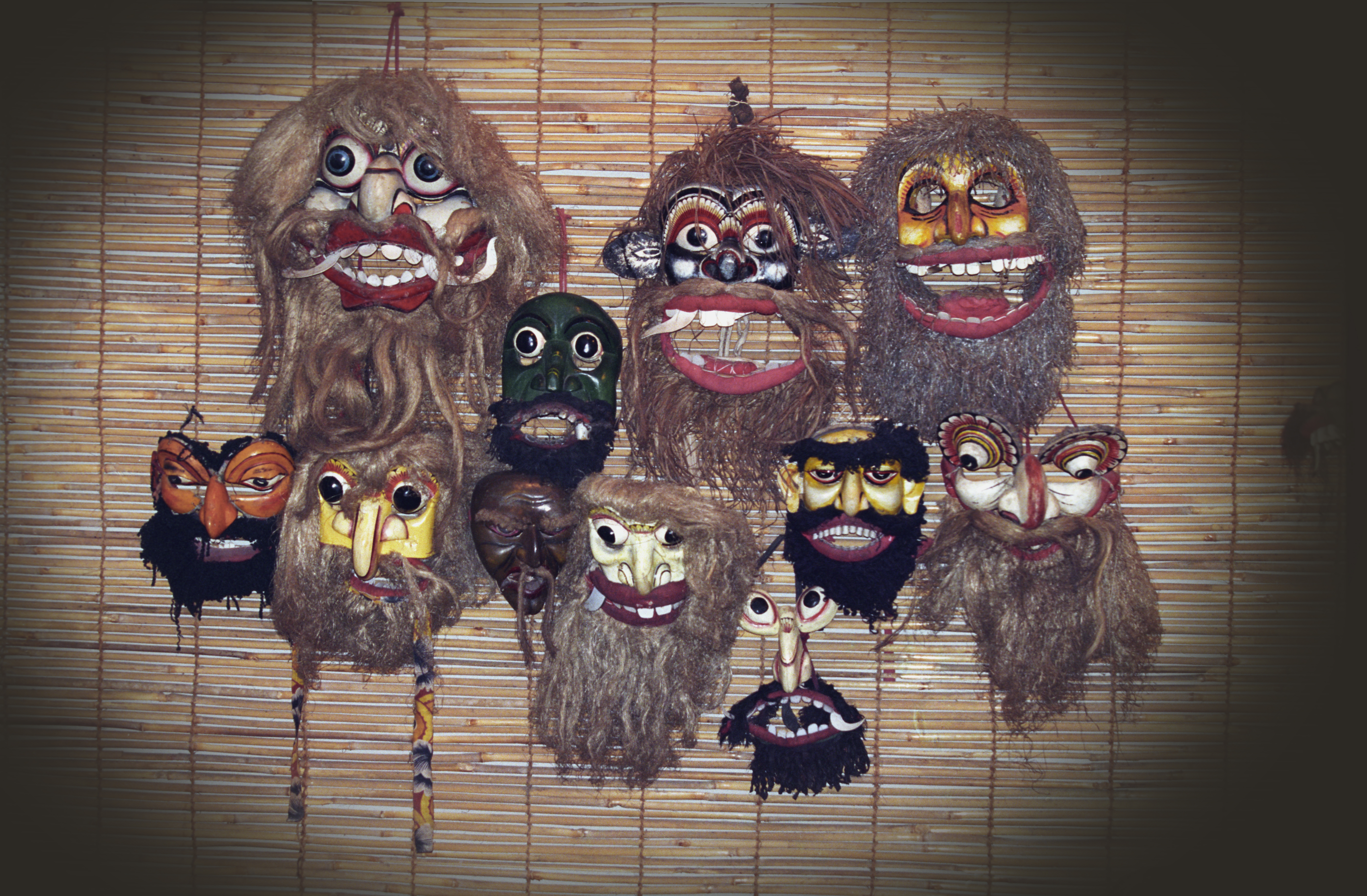 Masks in Ambalangoda Masks Museum